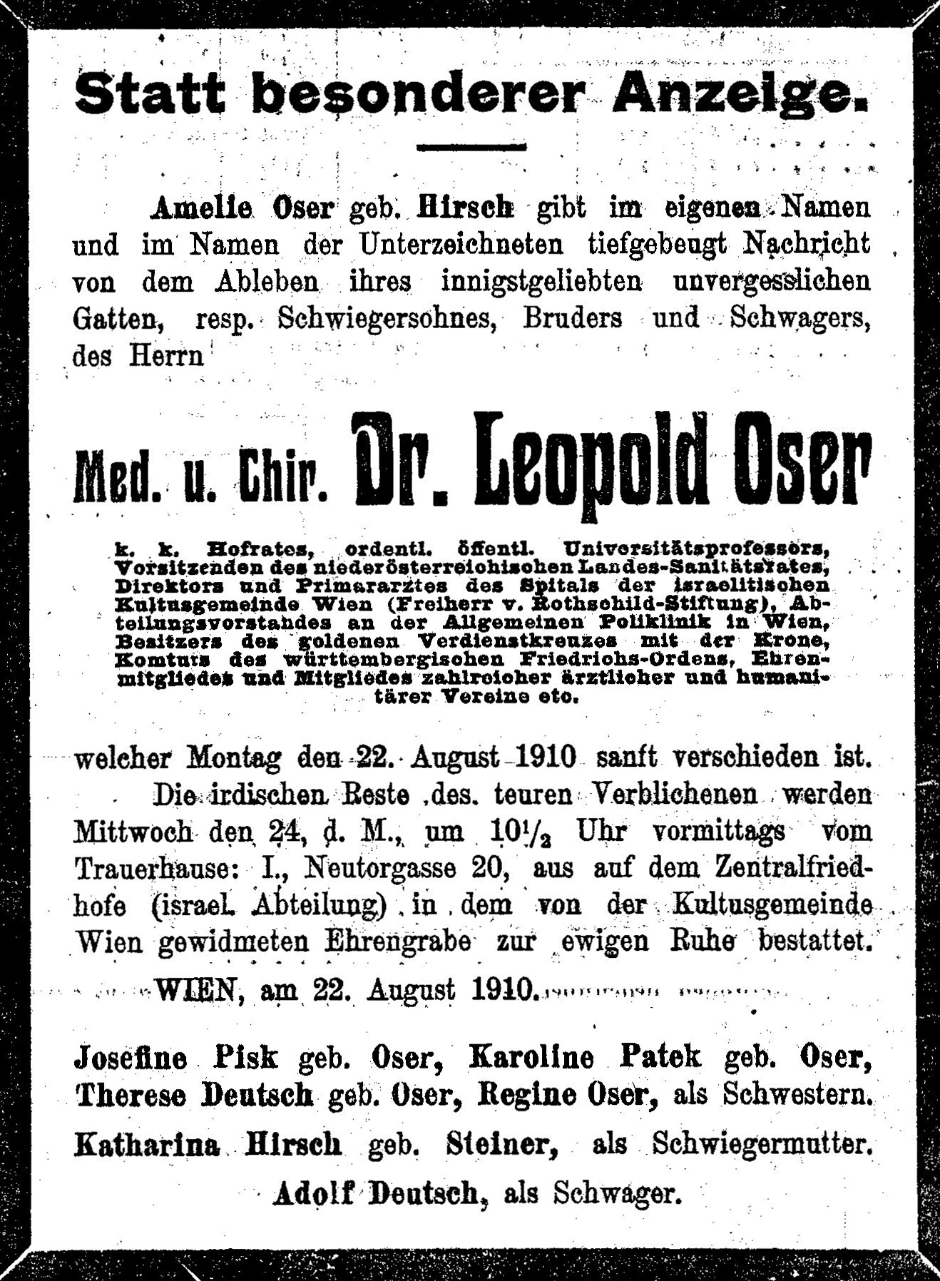 Death notice of the internist and university professor Leopold Oser (1839–1910)